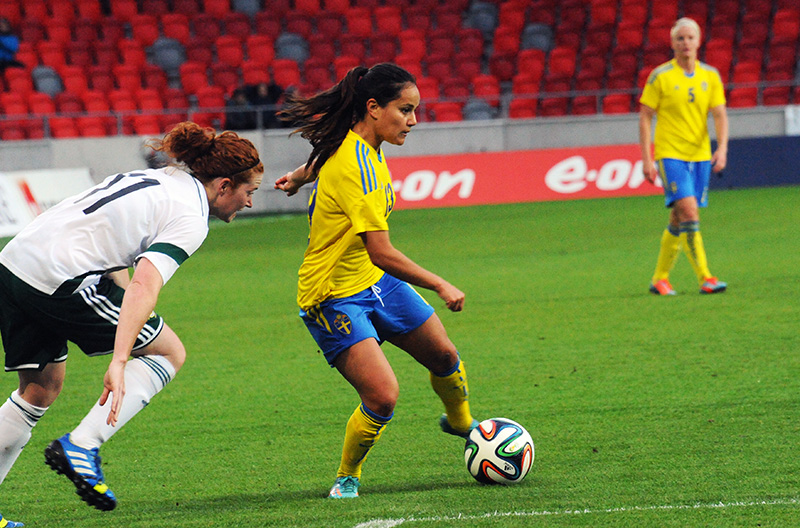 Malin Diaz playing for Sweden against Northern Ireland